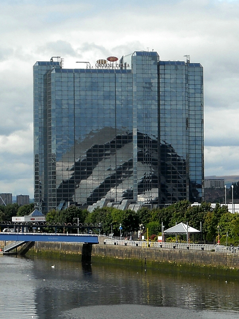 Armadillo Reflections The Clyde Auditorium, better known as the Armadillo, reflected in the Crowne Plaza Hotel. Viewed from the Clyde Arc (Squinty Bridge).